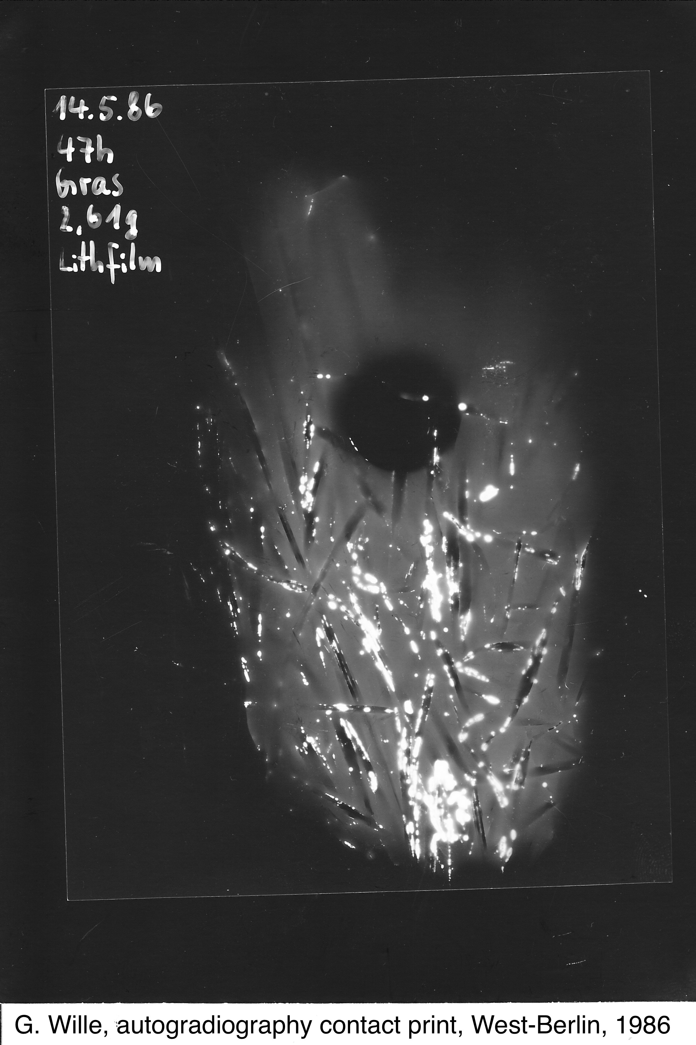 On April 26, 1986, an explosion in the nuclear power plant near Chernobyl, Ukraine, created a radioactive cloud that some days later reached central Europe. Radioactive fall-out particles sticked to the ground and plants. My colleague Tyno Abdul-Redah and me exposed grass leaves from our school yard in (at that time) West-Berlin to photographic plan film for 47 hours in a hermetically closed box. After its development the negative was copied on 10x15 cm photo paper which is submitted here as a scan. It shows the hot spots, namely caused by 131-Iodine isotope, as white spots on the grass leaves (the round dark spot origins from a coin, used to generate a contrast area). Our work was submitted to the German Competition for Young Scientists (jugend forscht) in 1987. Because of its background this image can also be regarded as a historical document.